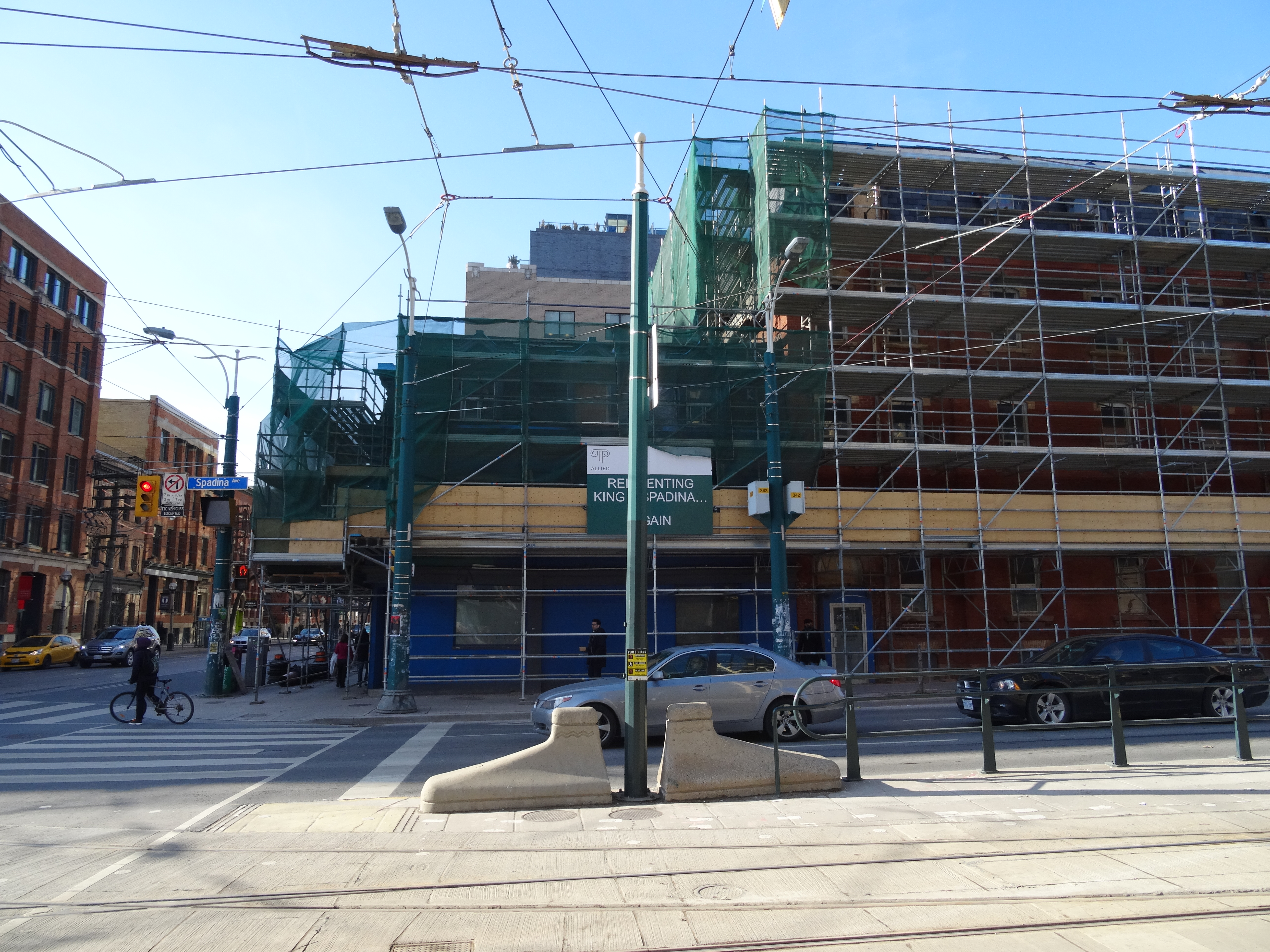 The old Spadina Hotel is getting some work done, 2014 12 20 -z